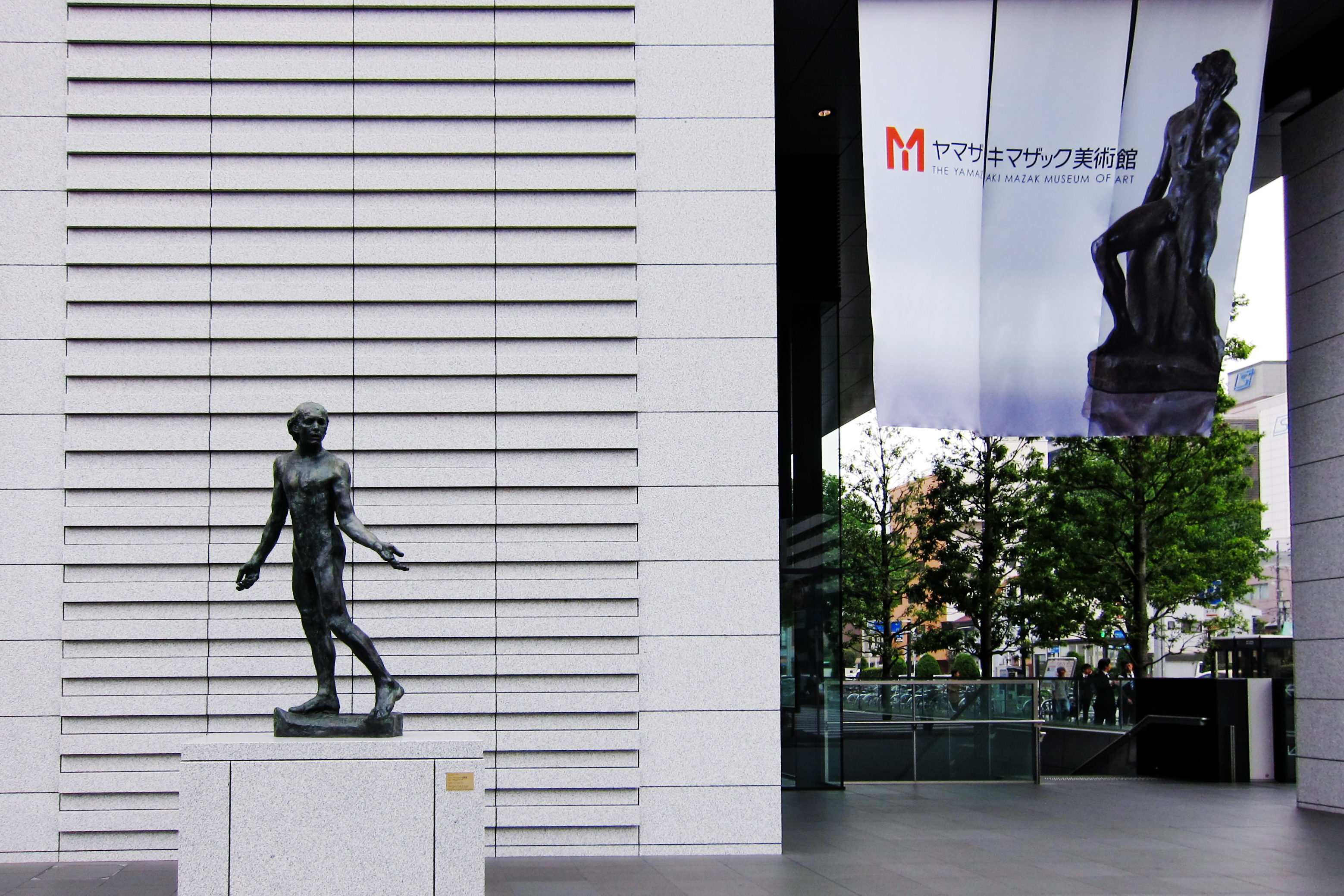 Yamazaki Mazak Museum of Art, Nagoya, Aichi prefecture, Japan.